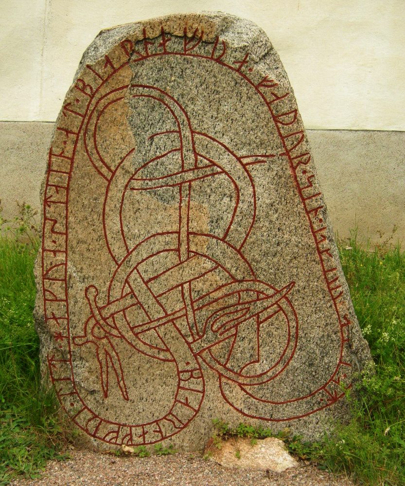 runic stone Upplands runinskrifter U1045